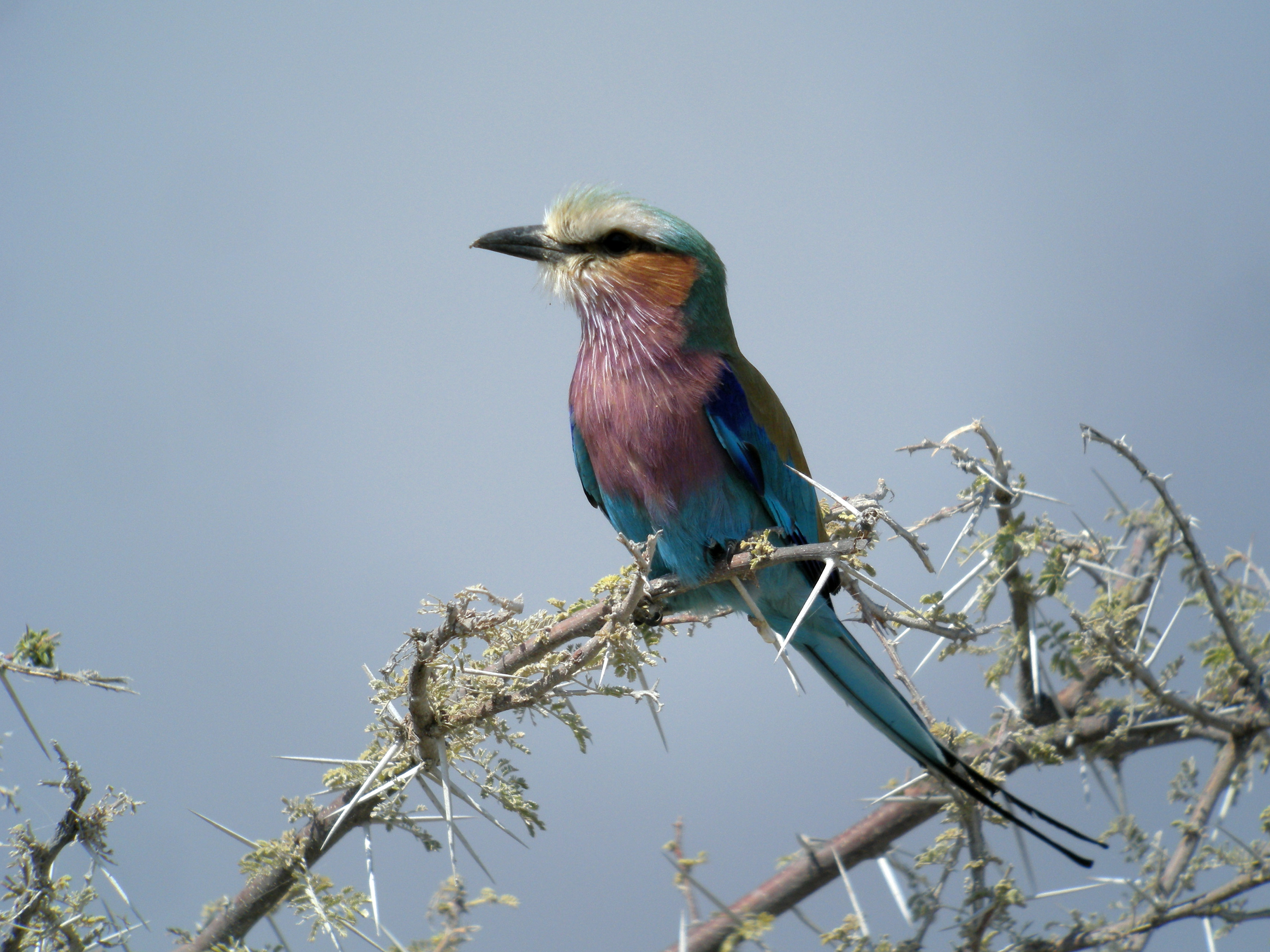 An adult Lilac-breasted Roller at Etosha National Park, Namibia.